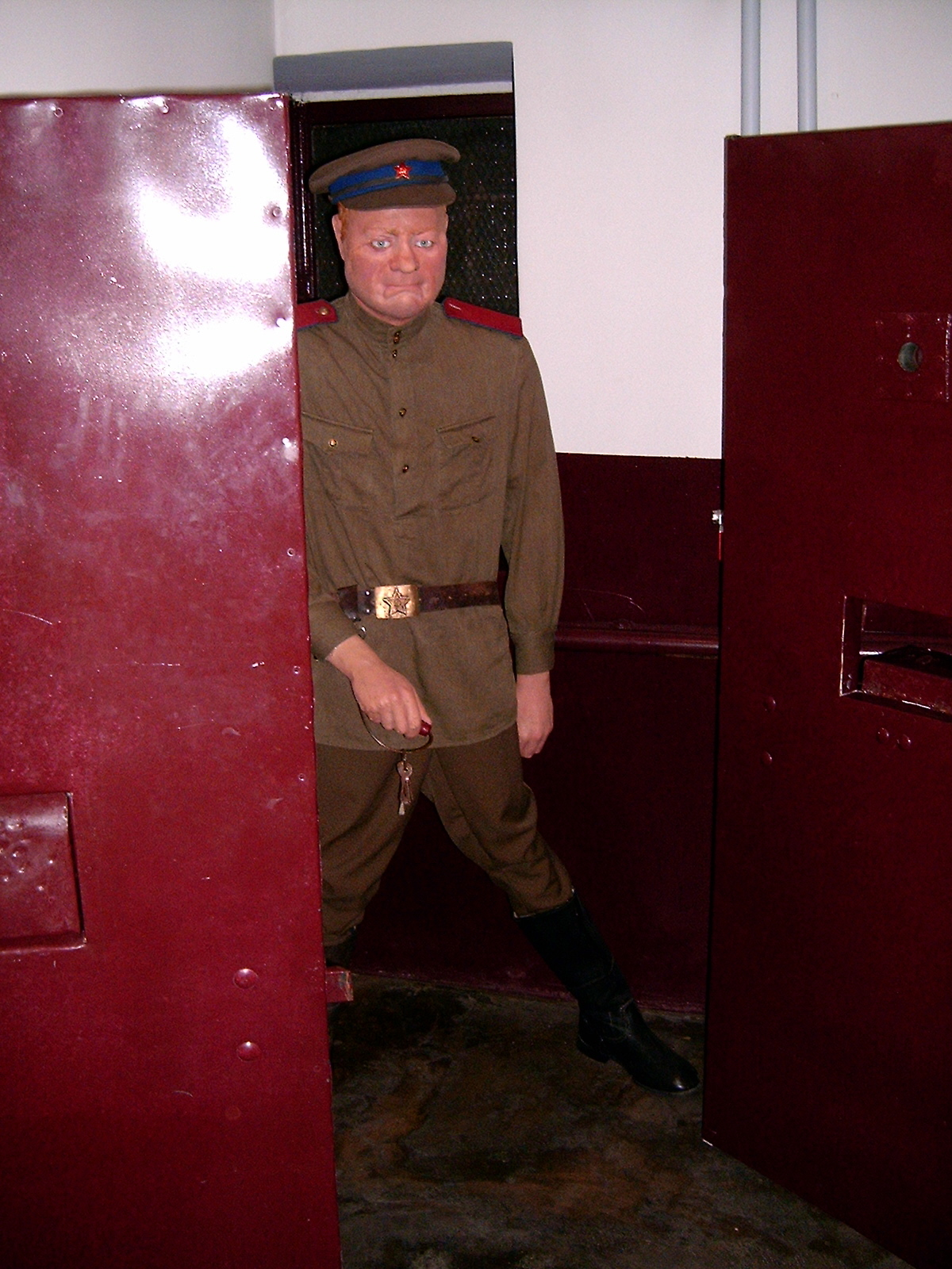 KGB cellen in Tartu